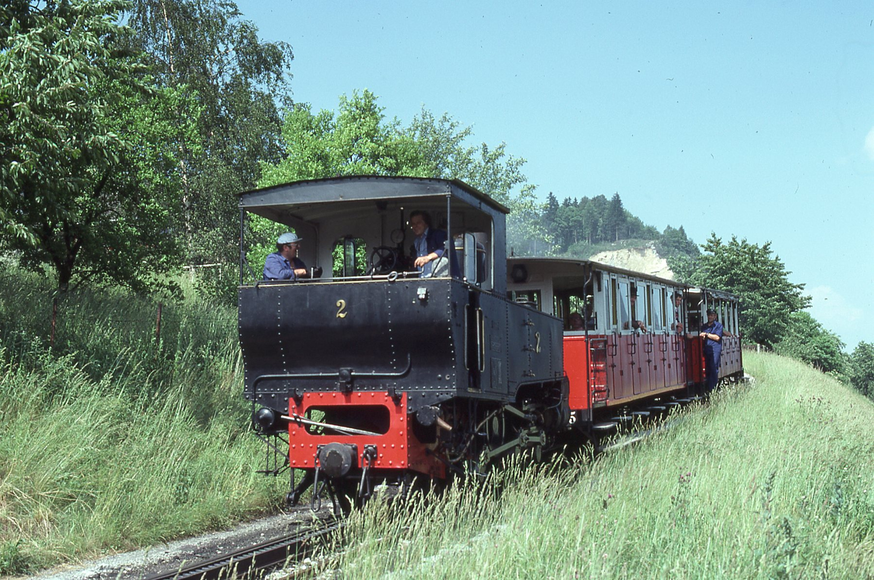 Achenseebahn No 2 with a two car train on the rack section of the line.